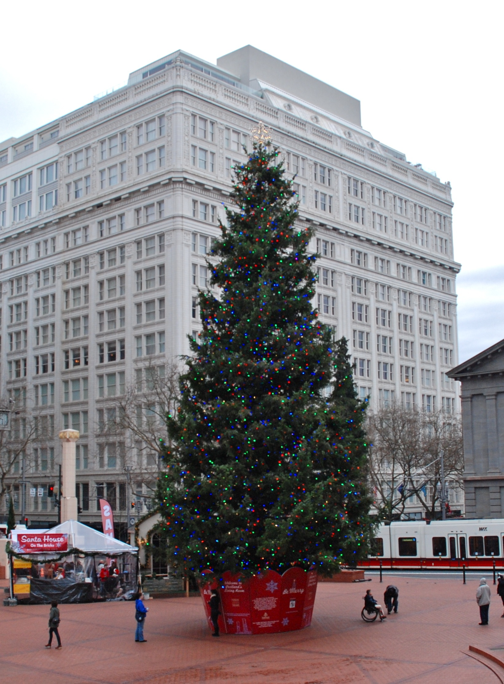 The 2011 Christmas tree at Pioneer Courthouse Square, in Portland, Oregon, U.S. Filling the background is the historic Meier & Frank Building, now occupied by Macy's (since 2006) and "The Nines" hotel (since 2008). A MAX light rail train is partially visible passing by on SW 6th Avenue.